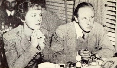 Beverly Roberts e William Keighley